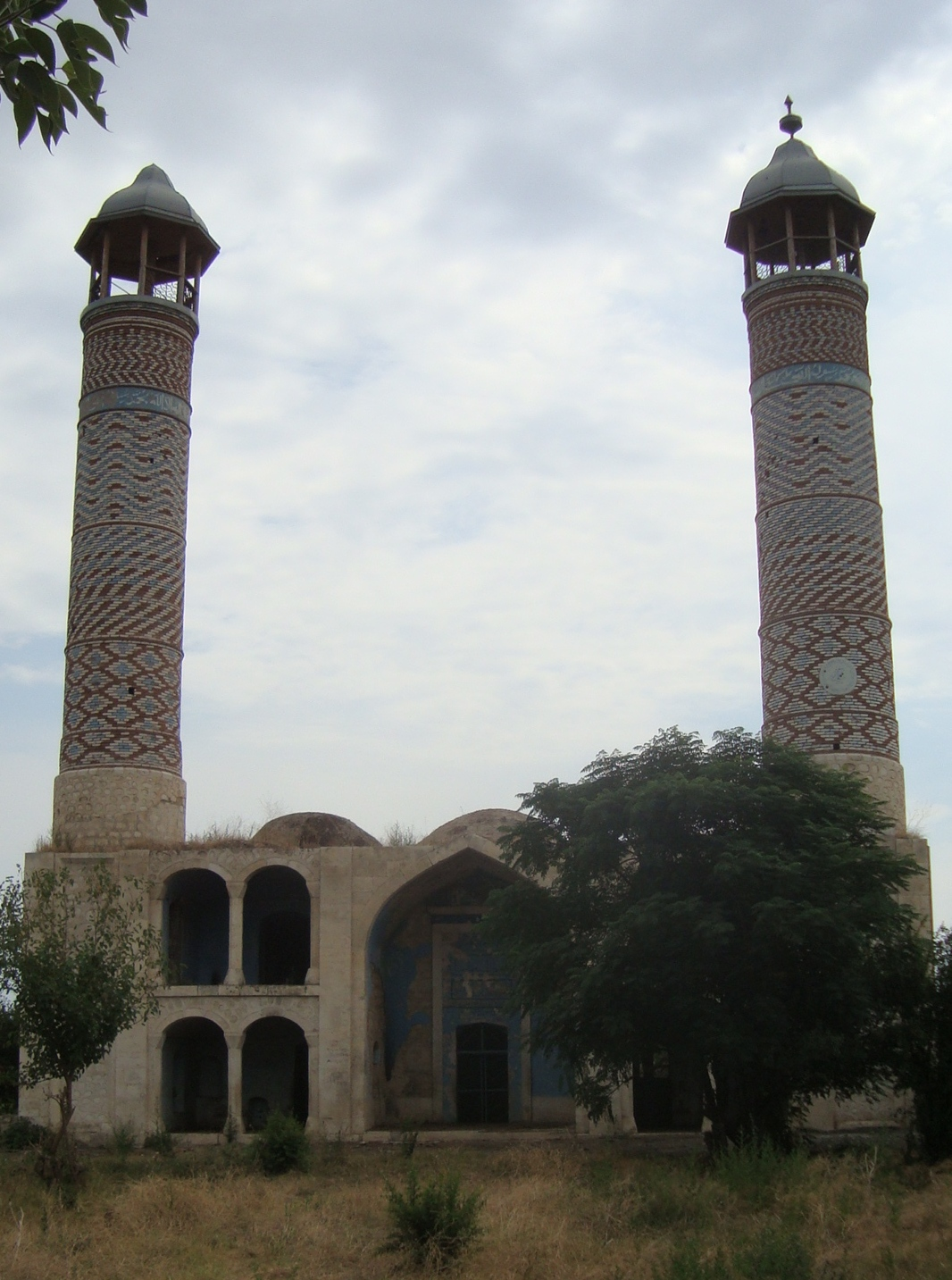 Agdam mosque. Location: Ukhtasar village, Askeran district, Republic of Mountainous Karabakh (Artsakh) / Agdam city, Azerbaijan.